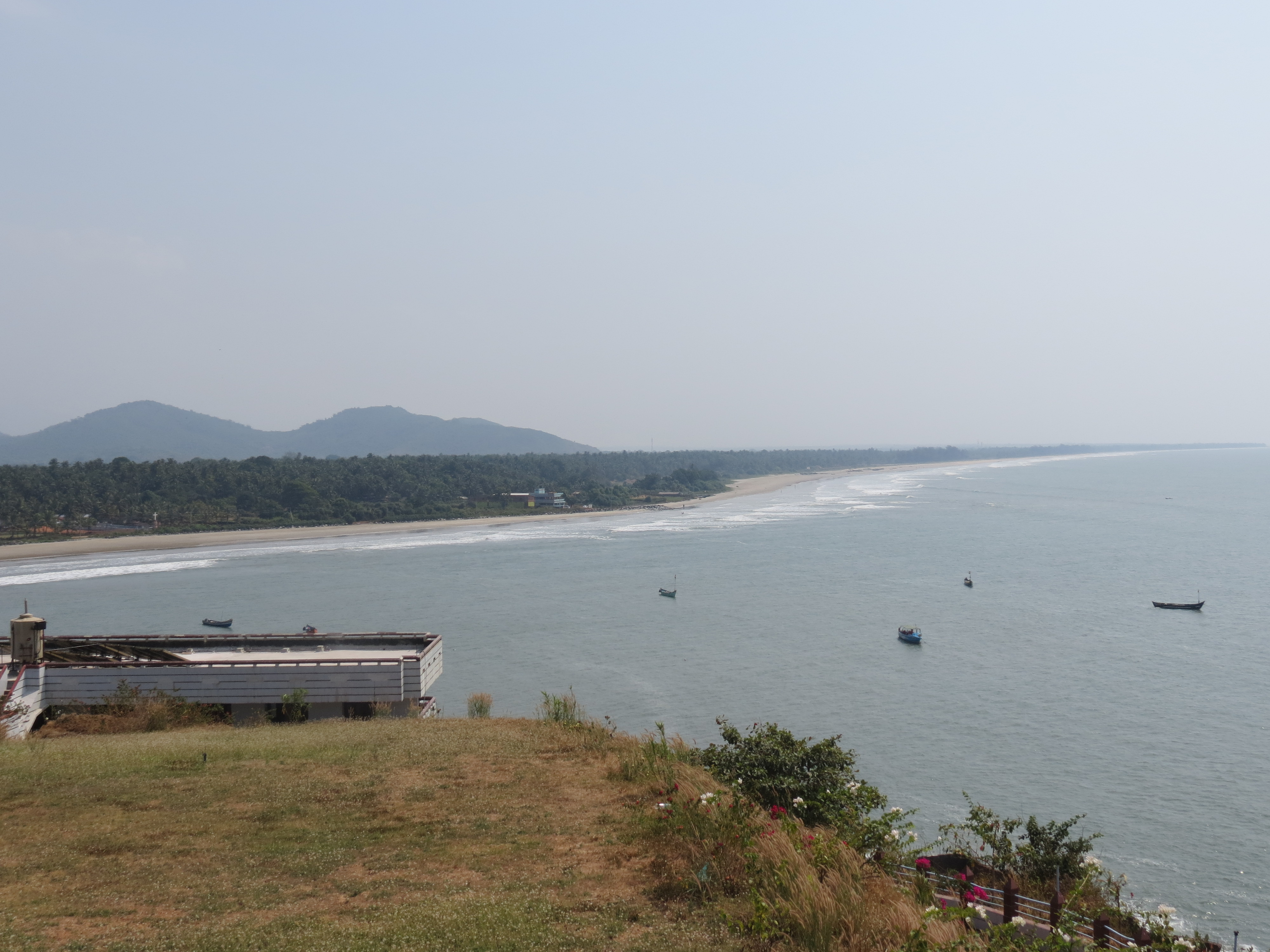 Murudeshwar